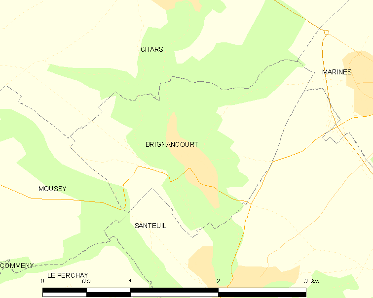 Map of French municipality Brignancourt